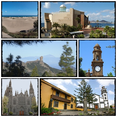 Photos of places in Gran Canaria, Islas Canarias, España: 1- Dunes between Playa del Inglés and Maspalomas, Gran Canaria; looking in SE direction.27°44′55.40″N 15°34′24.63″W / 27.748722°N 15.5735083°W. 2- "Alfredo Kraus" auditorium, Las Palmas de Gran Canaria. 3- Roque Nublo, with Mount Teide (on Tenerife) in the horizon. 4- Church tower in Gáldar. 5- Original church San Juan Bautista de Arucas, a.k.a. cathedral of Arucas; of neo-gothic style, built in lava in 1909 by catalan architect Manuel Vega March, finished only in 1977. 6- House-museum of Tomas Morales, Canary writer, installed in his natal house in Moya.